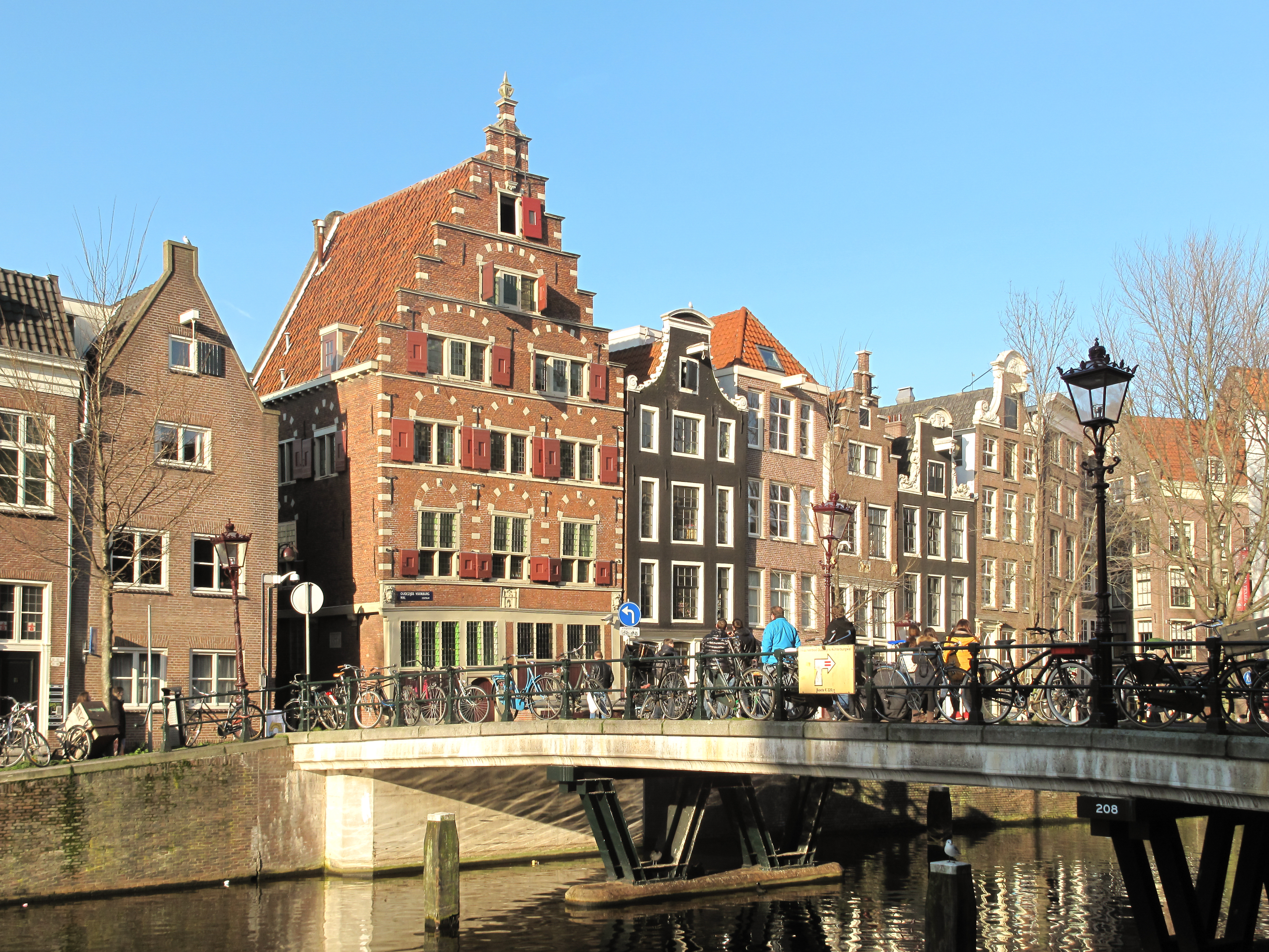 Amsterdam, view to a street: deOudezijds Voorburgwal